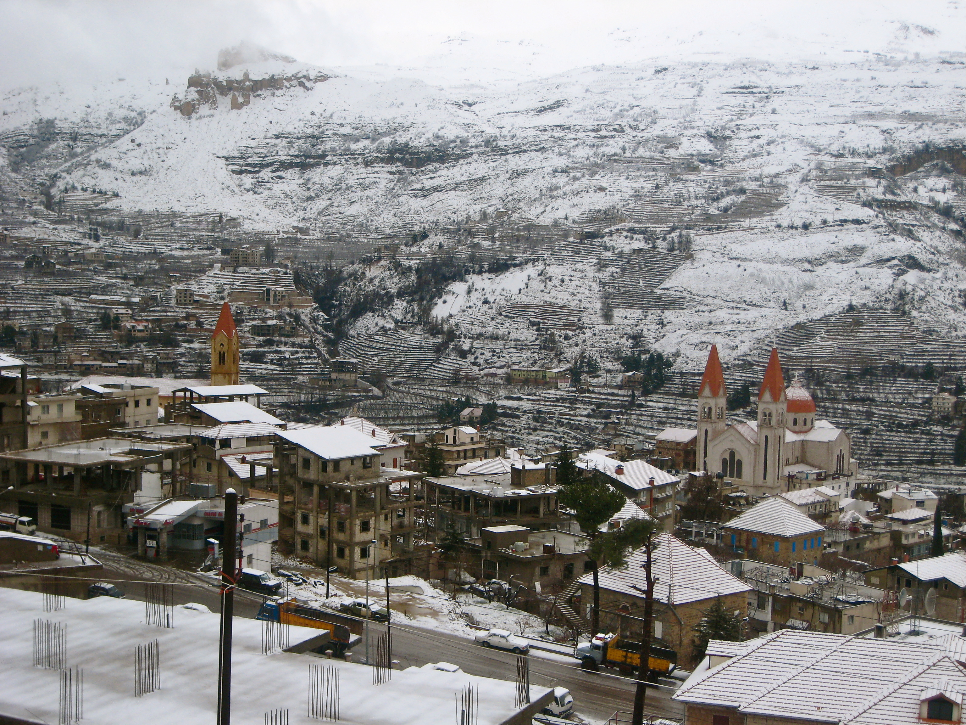 Bsharri